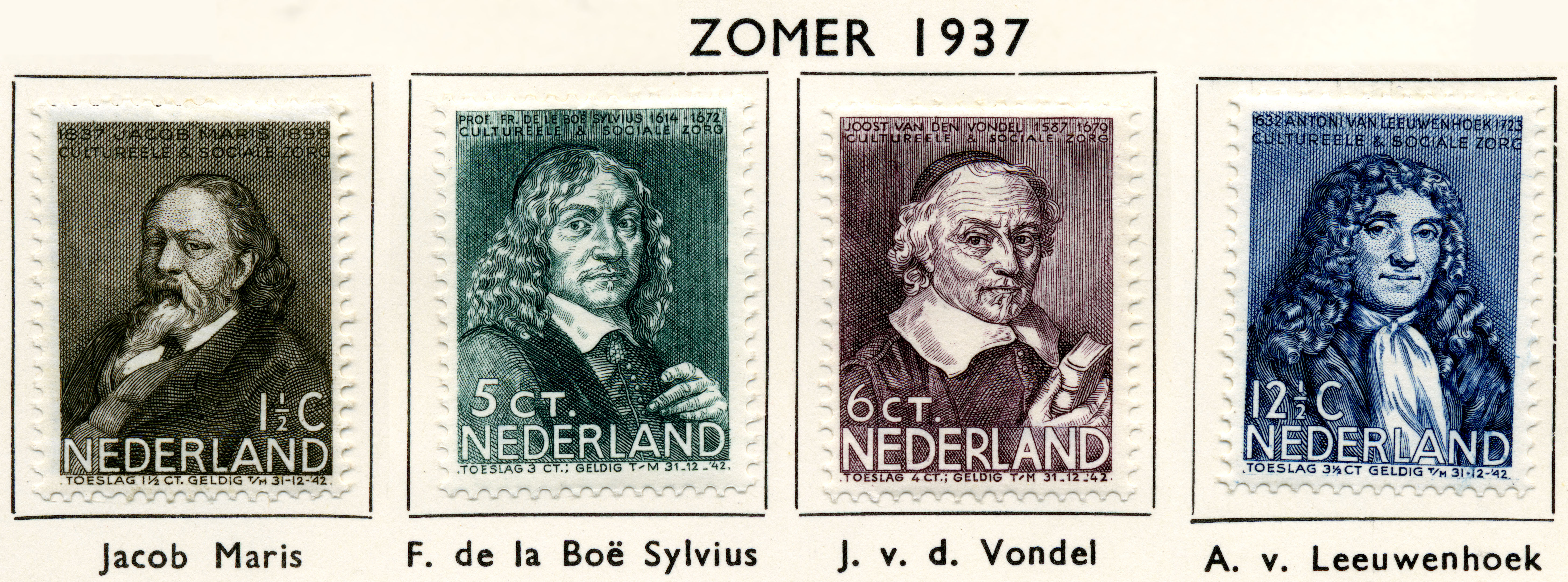 "Summer stamps" (1937) with Jacob Maris (1837-1899) painter, F. de la Boë Sylvius (1614-1672) medical doctor, J. van den Vondel (1587-1679) writer and playwright, A. Leeuwenhoek (1632-1723) scientist